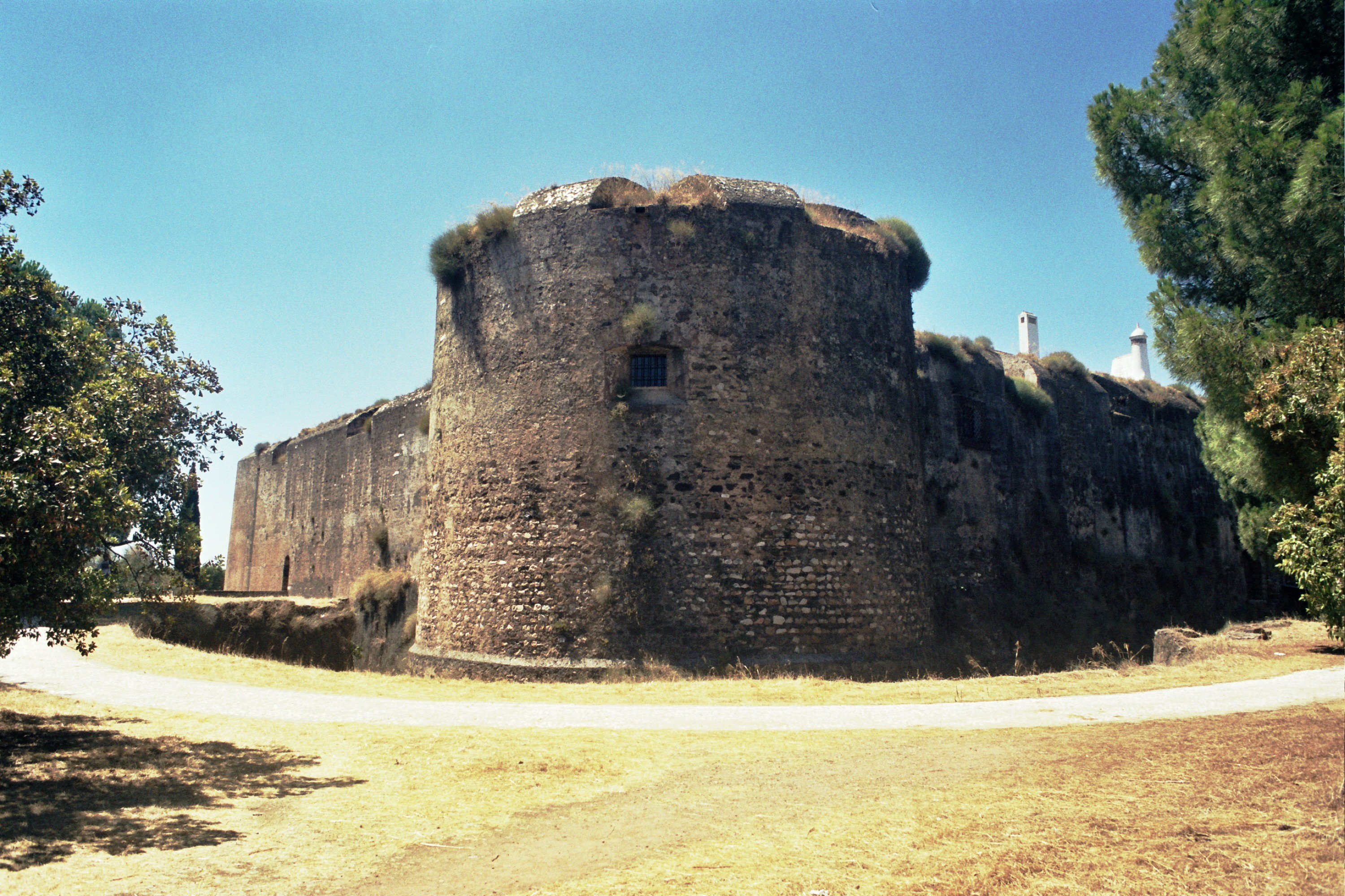 Vila Viçosa